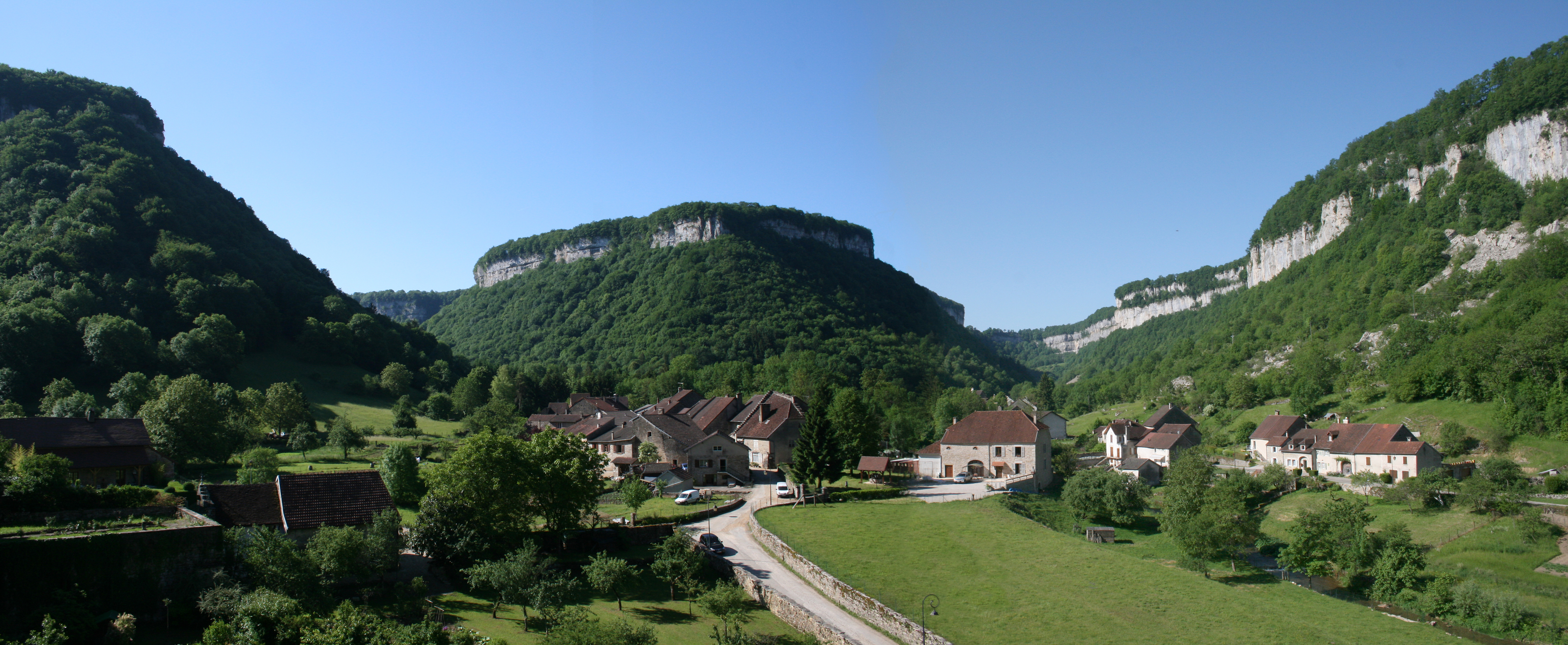 Baume-les-Messieurs (France), the village.